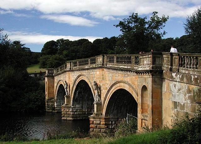 Chatsworth Bridge. The decorated and balustraded bridge leading from Edensor towards Chatsworth House